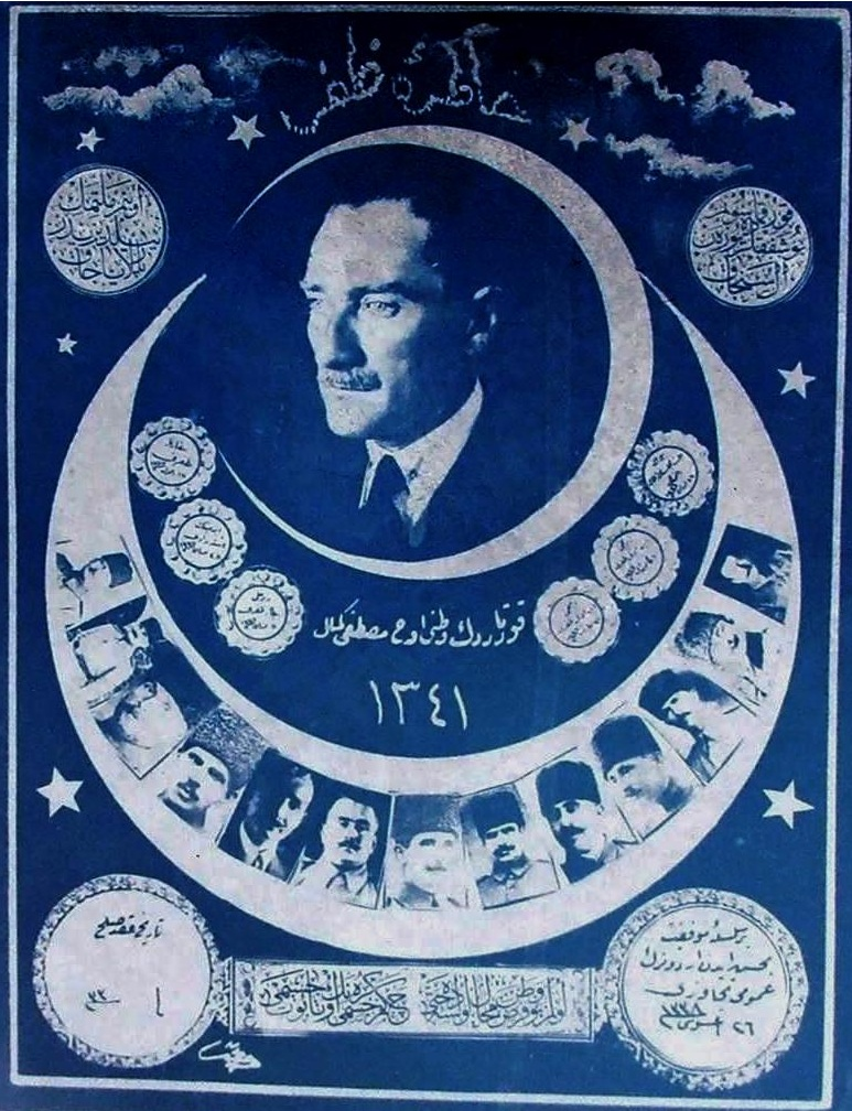 Hatıra-i Zafer (Memory of Victory) by Hasan Sabri in 1925. Commander-in-Chief Mustafa Kemal Pasha (Atatürk) at the top, and other generals at the below, left to right: Halid Pasha (Karsıalan), Kemaleddin Sami Pasha (Gökçen), Nureddin Pasha (Konyar), Kiazim Pasha (Özalp), Ali Ihsan Pasha (Sâbis), Kiazim Karabekir Pasha, Ismet Pasha (İnönü), Fevzi Pasha (Çakmak), Muhiddin Pasha (Akyüz), Refet Pasha (Bele), Djafer Tayyar Pasha (Eğilmez), Djevat Pasha (Çobanlı), and Selahattin Âdil Pasha.